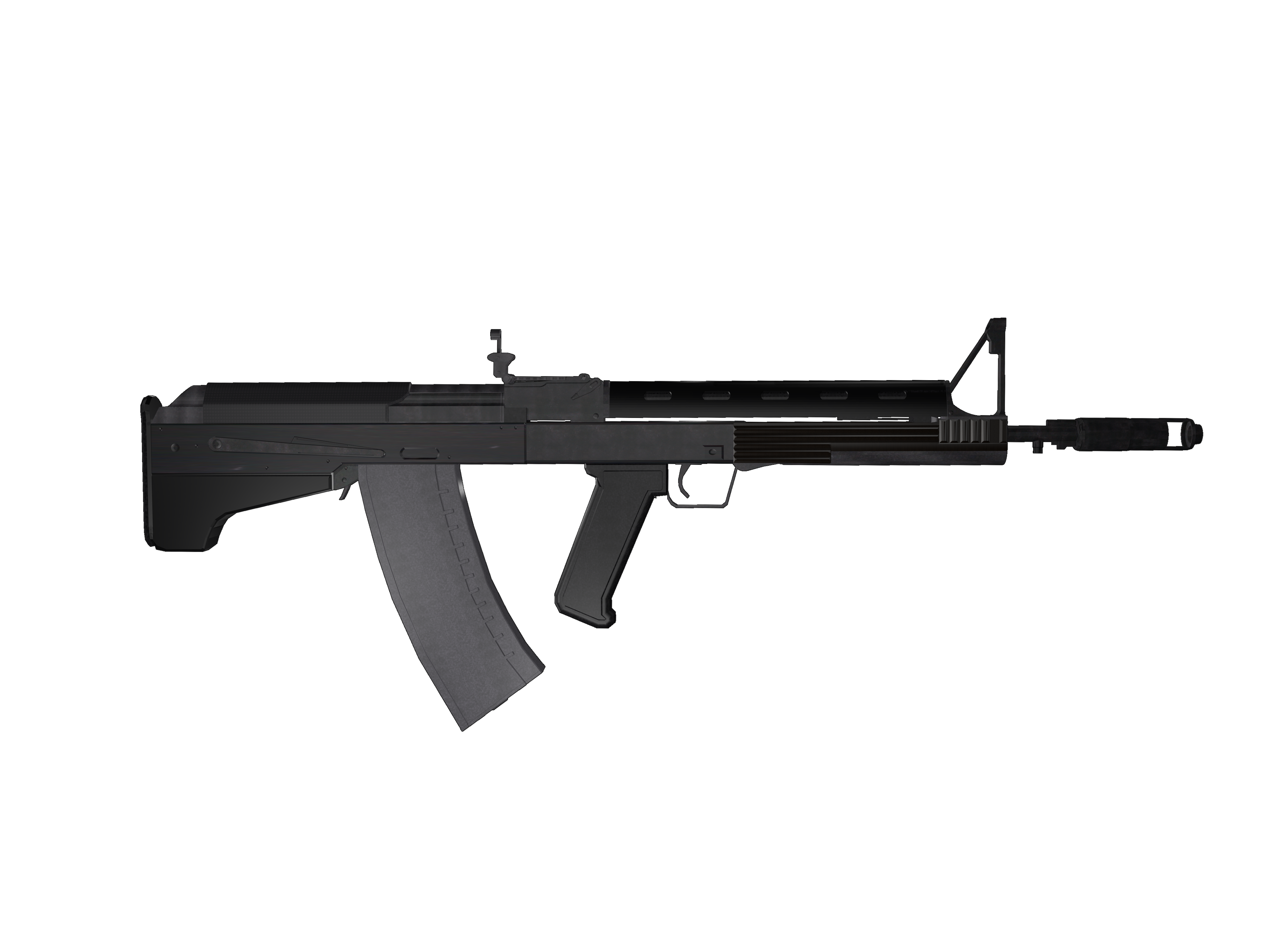 The Vepr (Ukrainian: Вепр, wild boar), Ukrainian assault rifle, designed by the National Space Agency of Ukraine. It is l bullpup conversion of the conventional AK-74 design. It is my own work, I create and perform rendering in Blender.